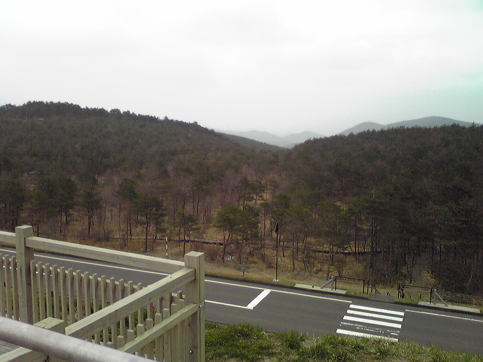 Views from viewing deck, Tsuchiyu, Roadside Station, Fukushima, Japan.